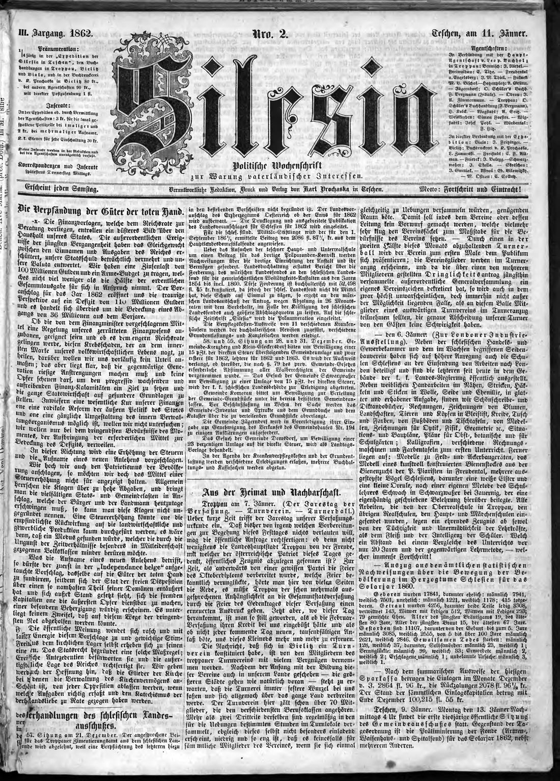 Front page of the Silesia magazine, 11 January 1862